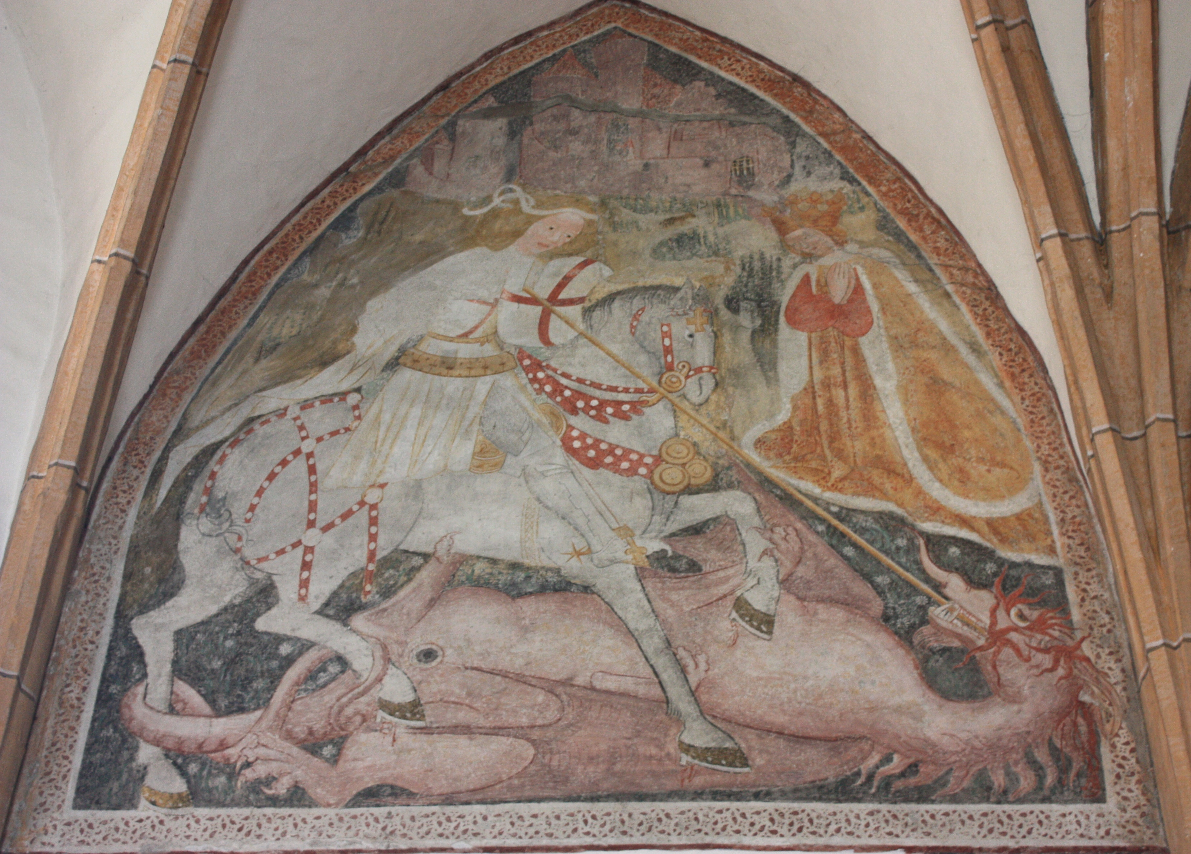 Parish church "Saint Ulrich" - Saint George Locality: St Ulrich an der Goding Community:Sankt Andrä